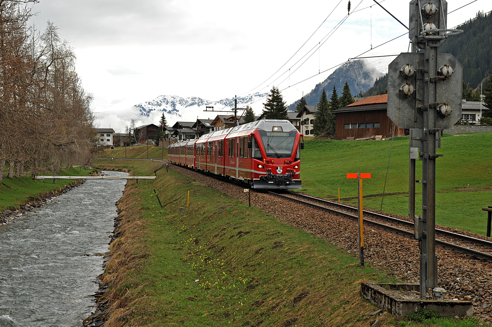 ABe 8/12 at the Clavadelerstrasse («Färbi») in Davos, driving to Frauenkirch; Graubünden, Switzerland.